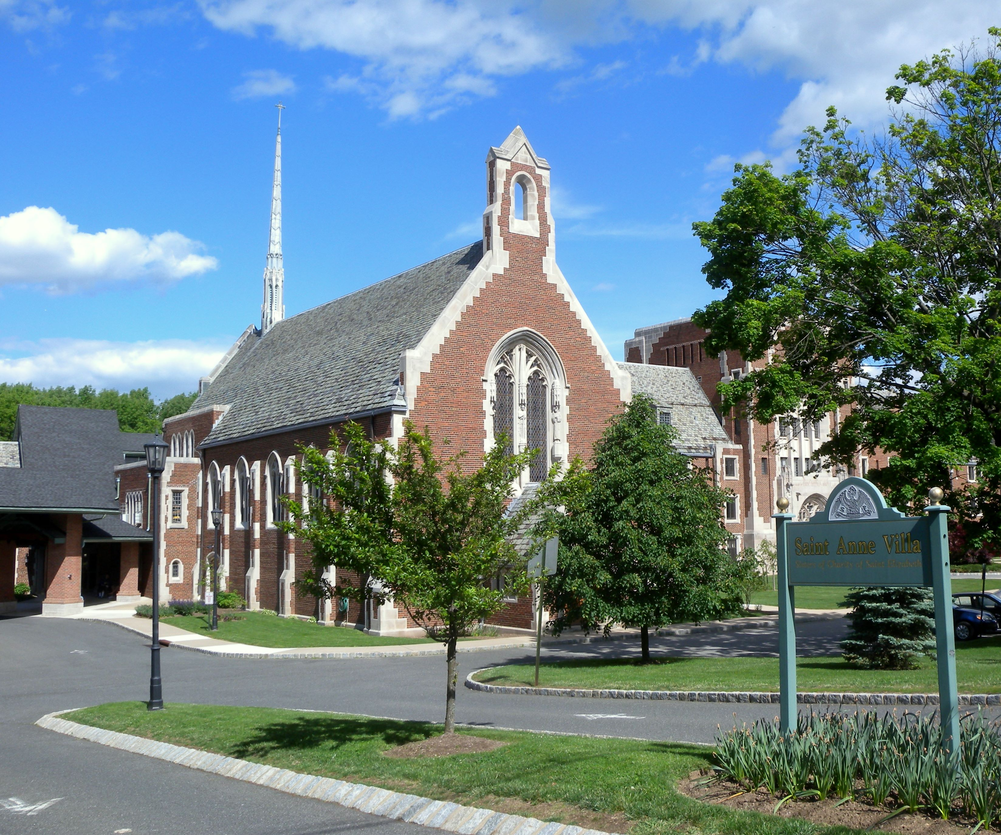 Looking east at the convent's retirement home on a partly cloudy afternoon.